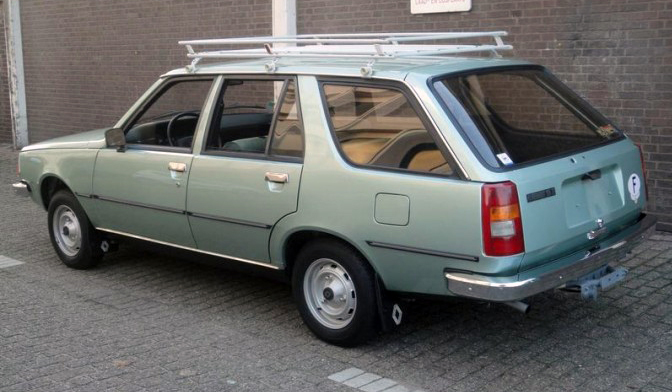 1980 Renault R18 TL Break, 1.4 litre engine and four-speed manual